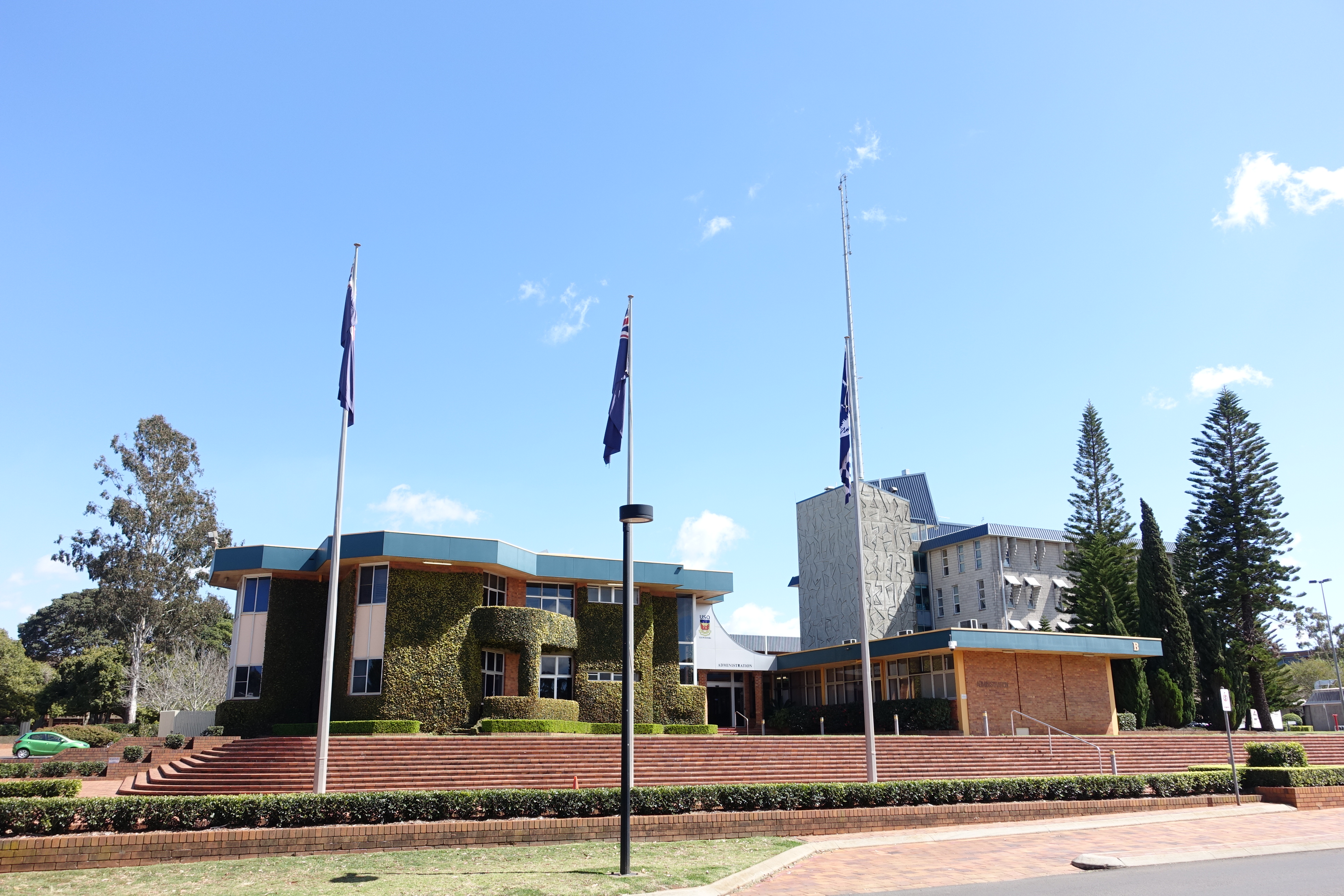 Photo of University of Southern Queensland campus at Toowoomba.